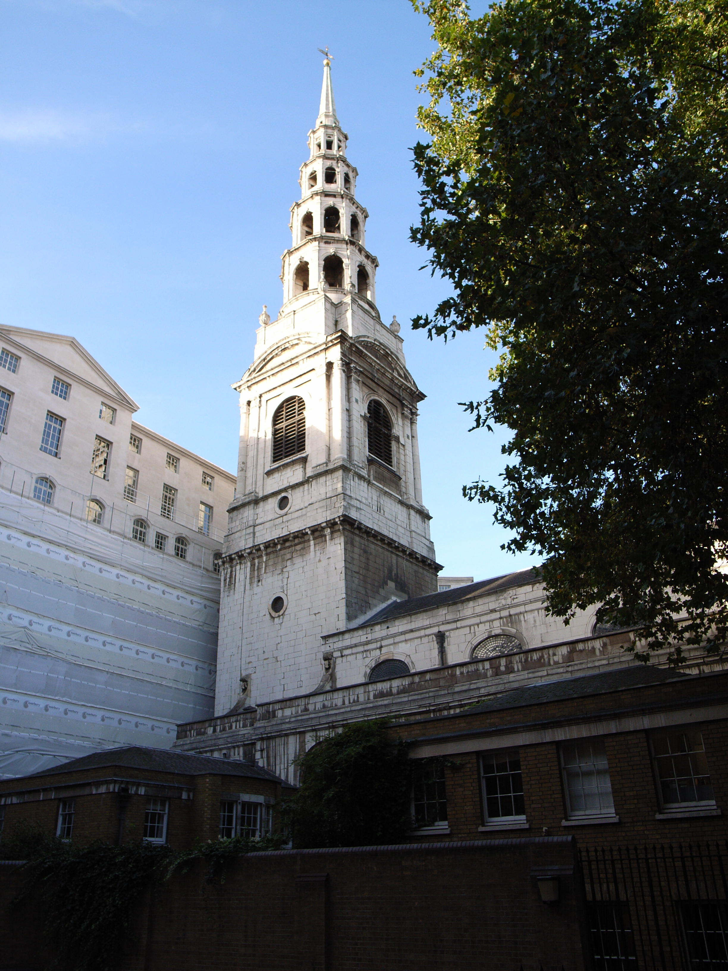 St Bride (1670-84), by Christopher Wren